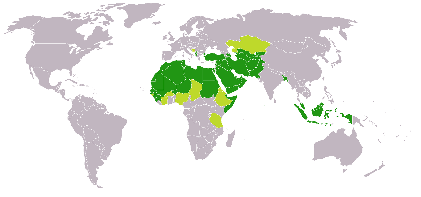 Nations with a Muslim majority appear in green, while nations that have approximately 50% appear in light green. See Majority Muslim countries for further reading.